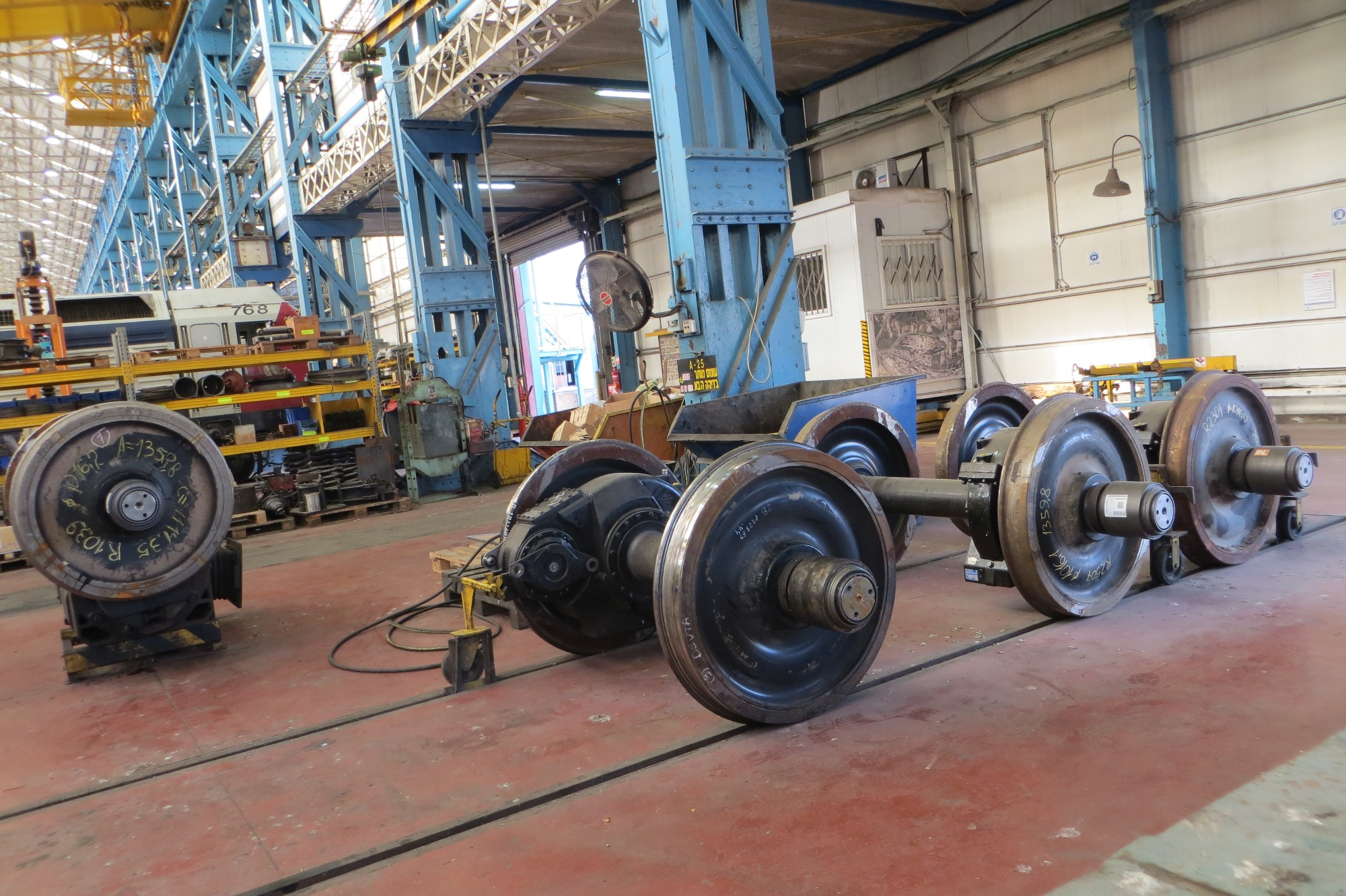 Transport in Israel